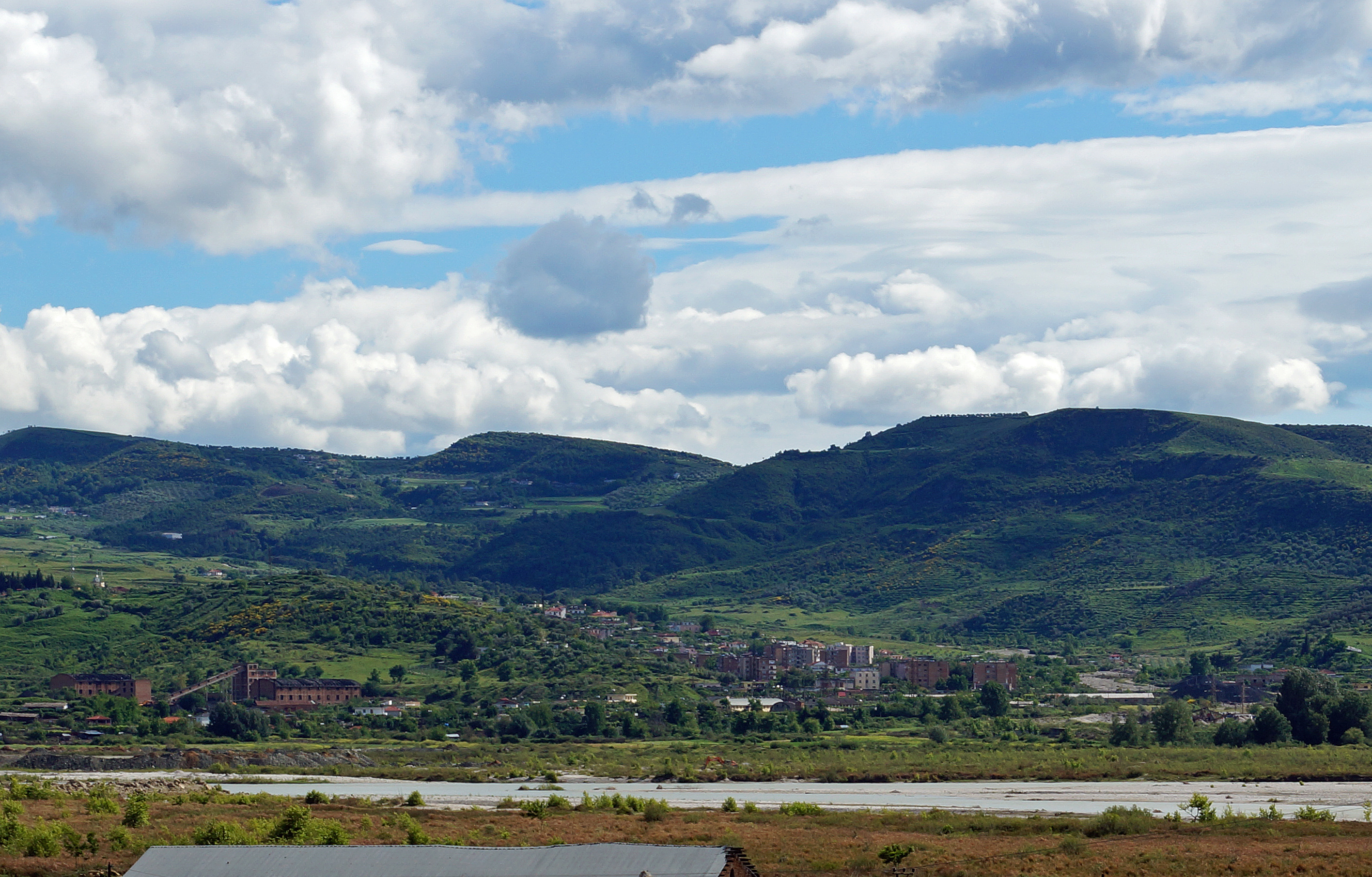 The town of Selenica in Southern Albania seen from North accross Vjosa river